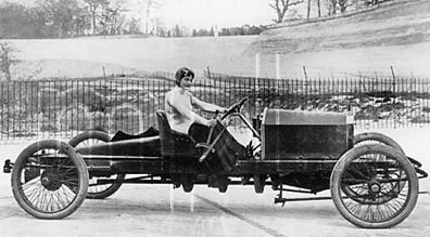 Low resolution, Watermarked, Preview image of : Miss Dorothy Levitt, in a 26hp Napier, at Brooklands, 1908.